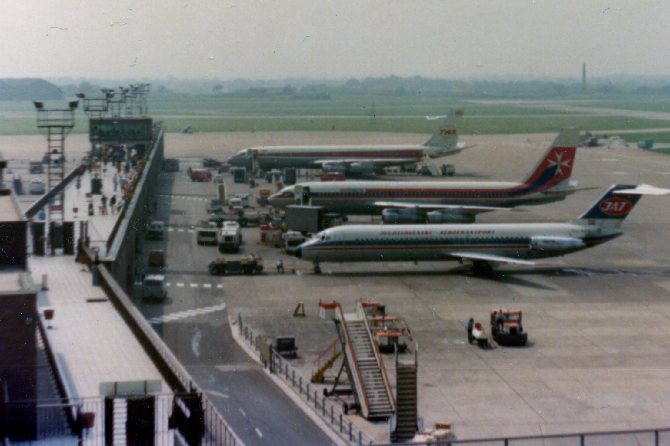 Manchester Airport, England - A TWA Boeing 707, Air Malta Boeing 720 and a JAT Douglas DC-9